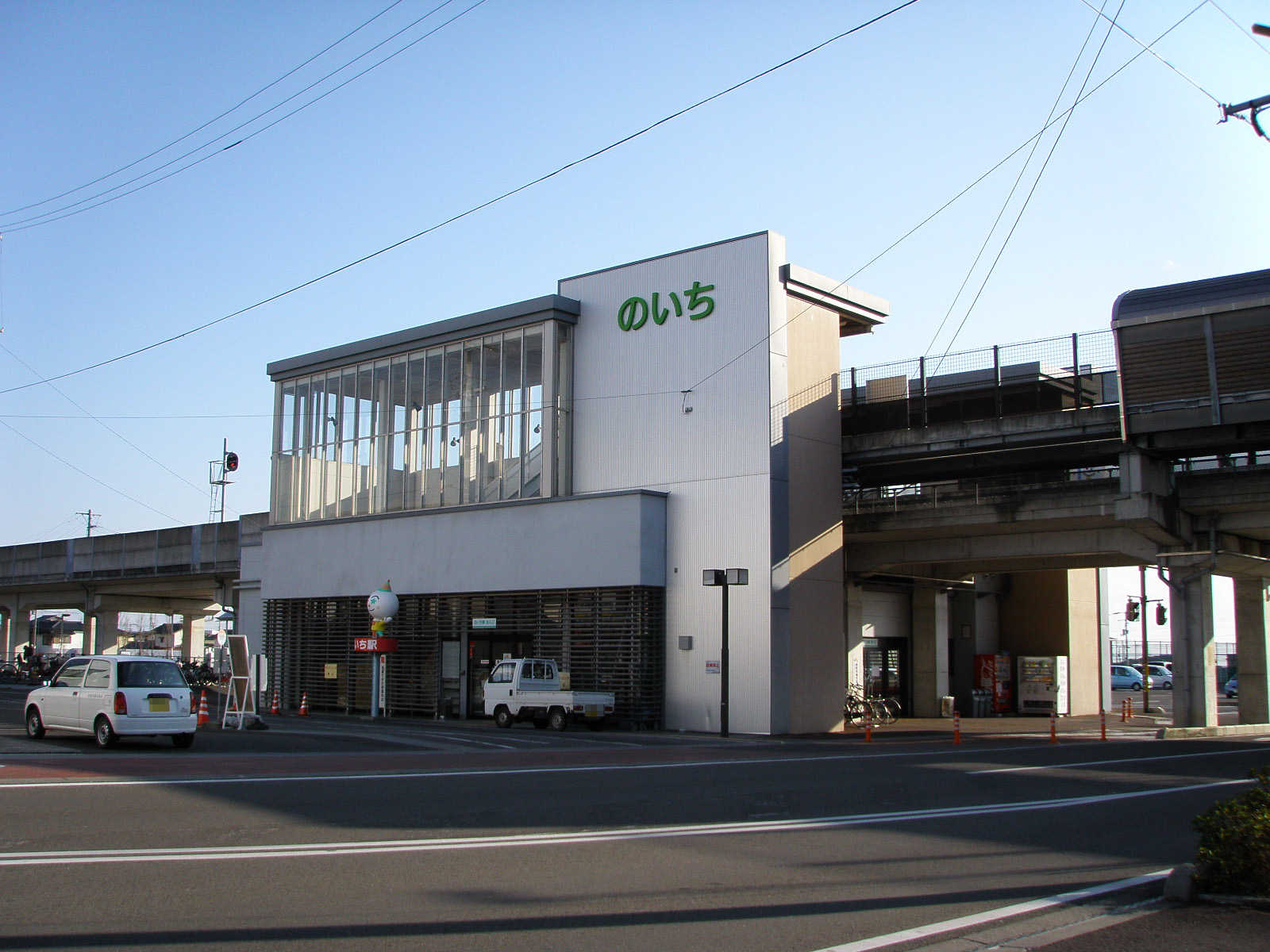 Tosa Kuroshio Railway Gomen-Nahari Line（Asa Line） Noichi Station Building